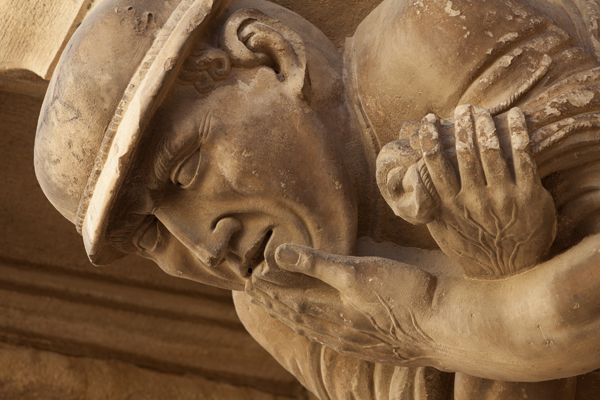 Plaça Major, La Paeria; Cervera, Catalunya, Lleida, Spain; Façana nord, detall, balcon d'esquerra amb les mensules; Ref: PM_086809_E_Cervera; La Paeria; Photographer: Paul M.R. Maeyaert; © Paul M.R. Maeyaert; ; Cultural heritage; Europeana; Europe/Spain/Cervera